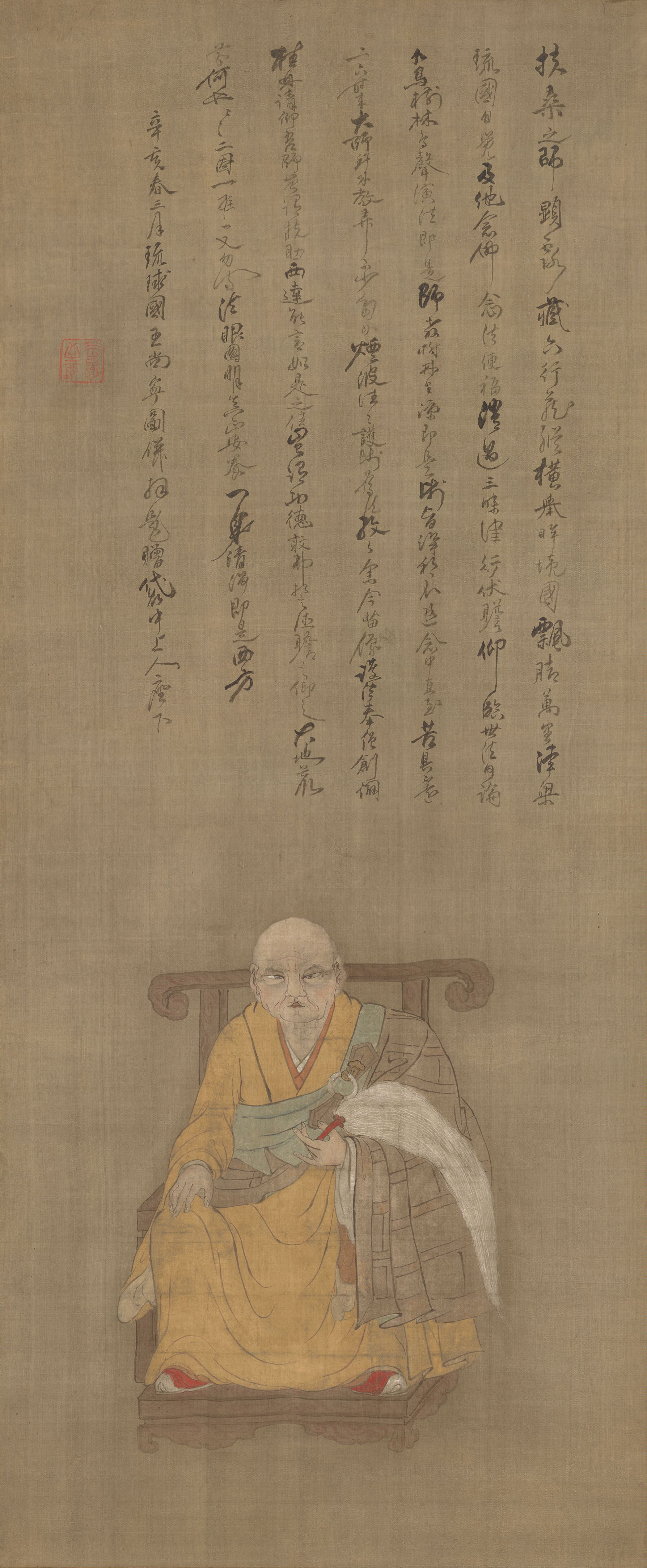 Taichū